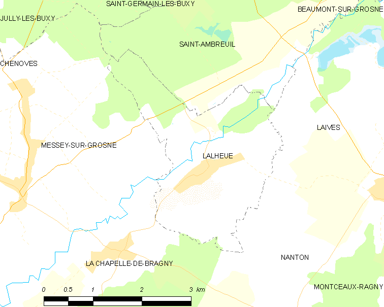 Map of French municipality